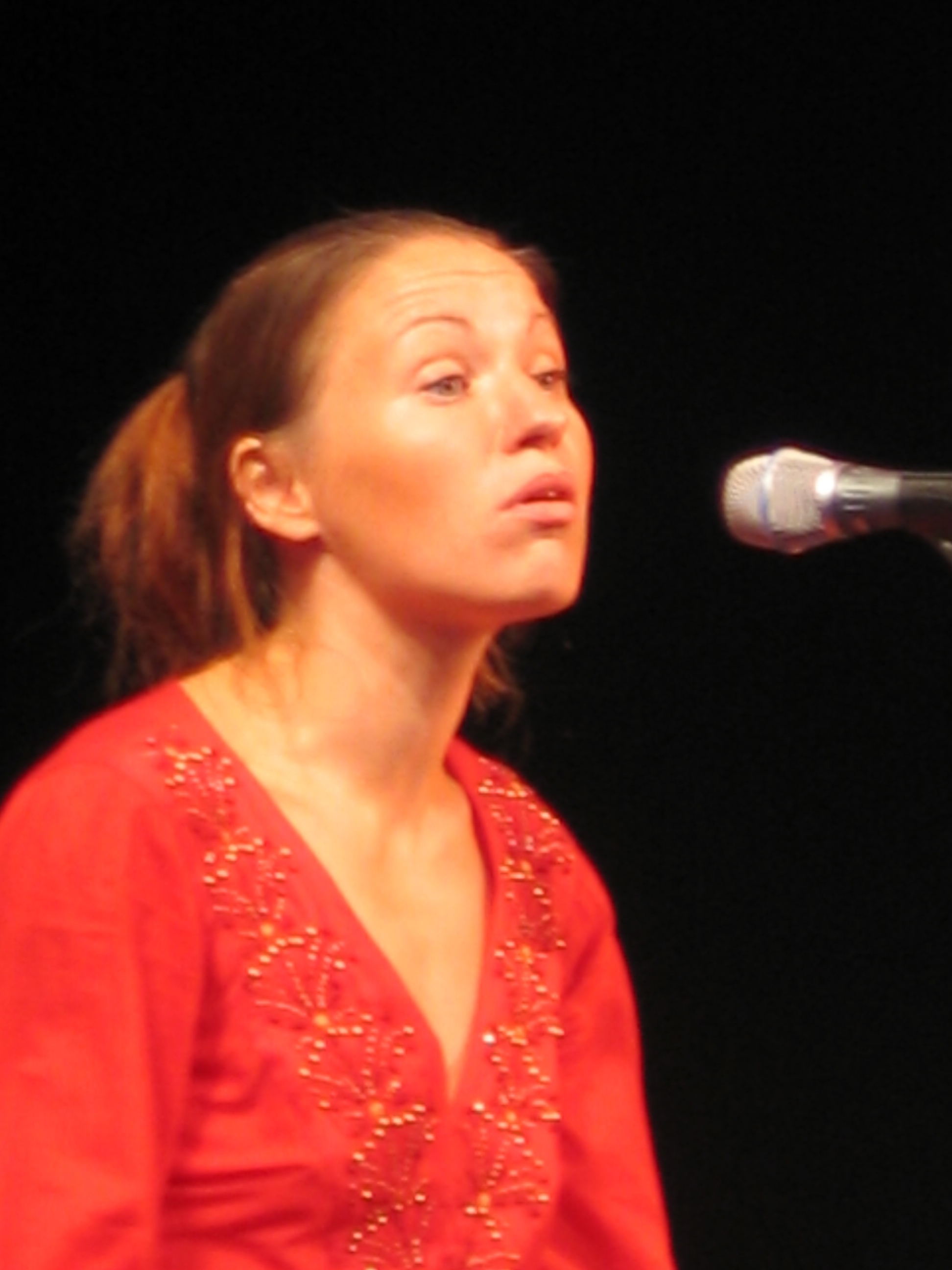 Kärt Johanson, singer from Estonia, performing in XV Viljandi Folk Music Festival